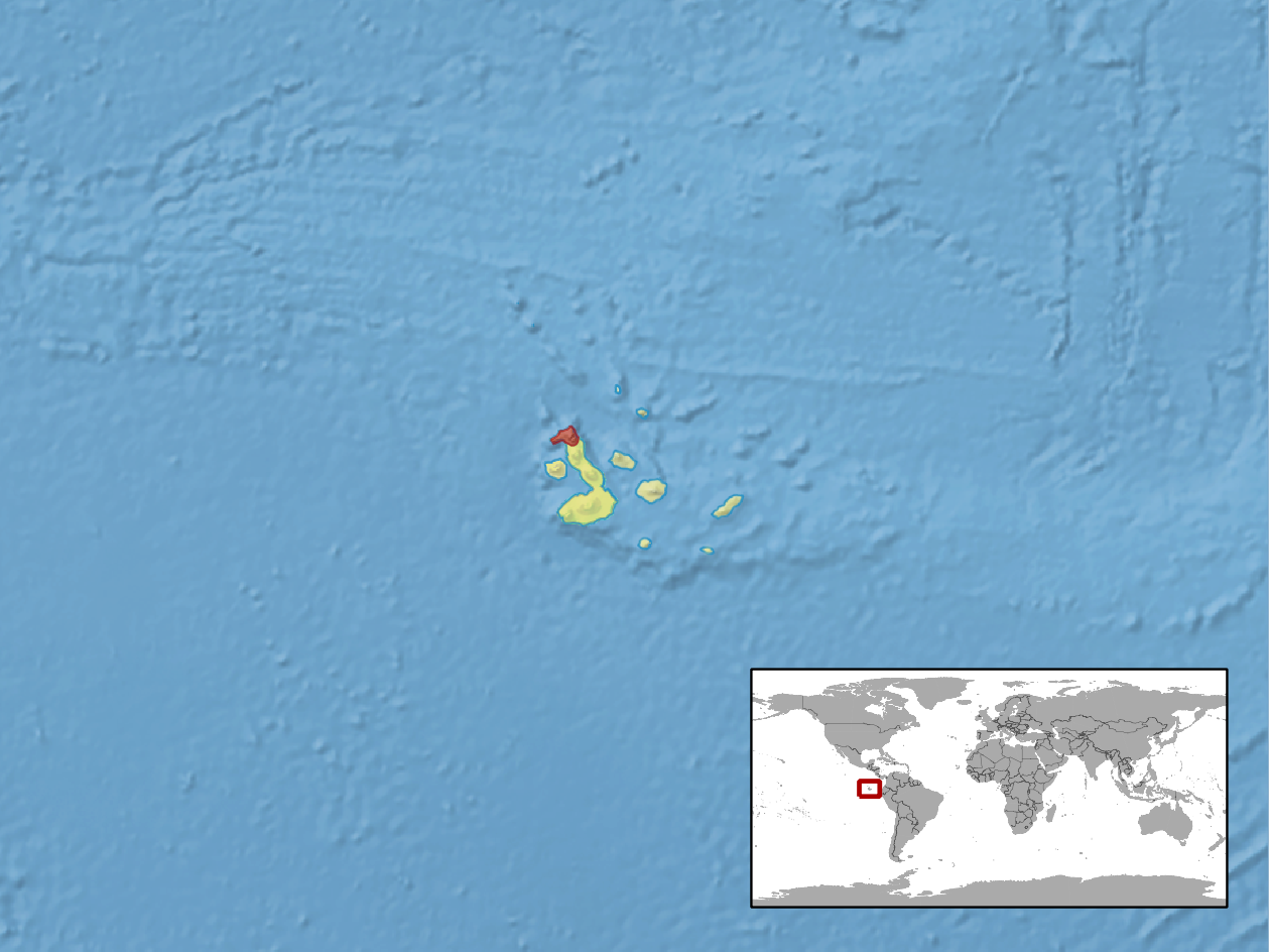 geographic distribution of Conolophus marthae (Native: Ecuador (Galápagos))